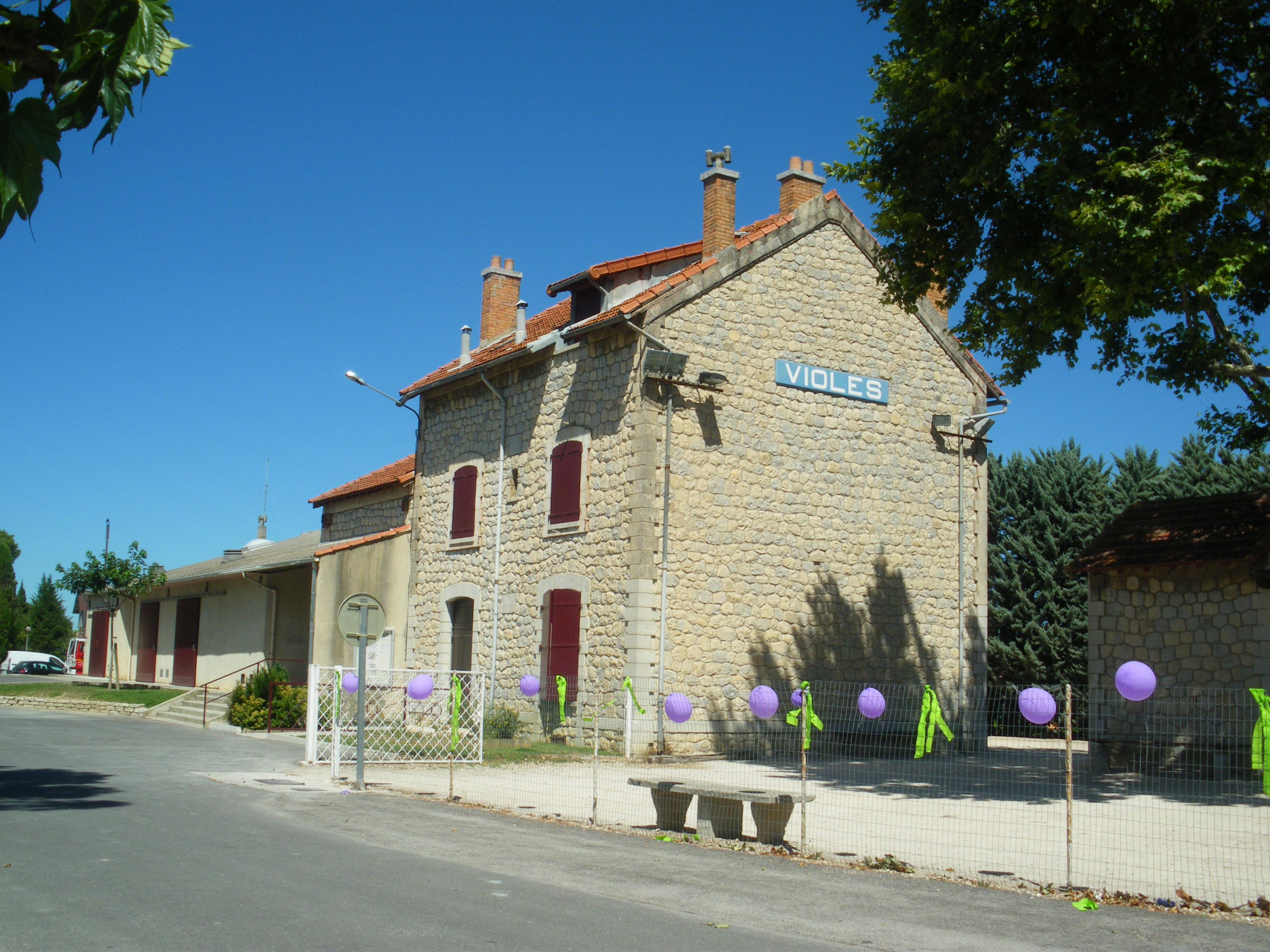 Old train station of Violès, Vaucluse, France